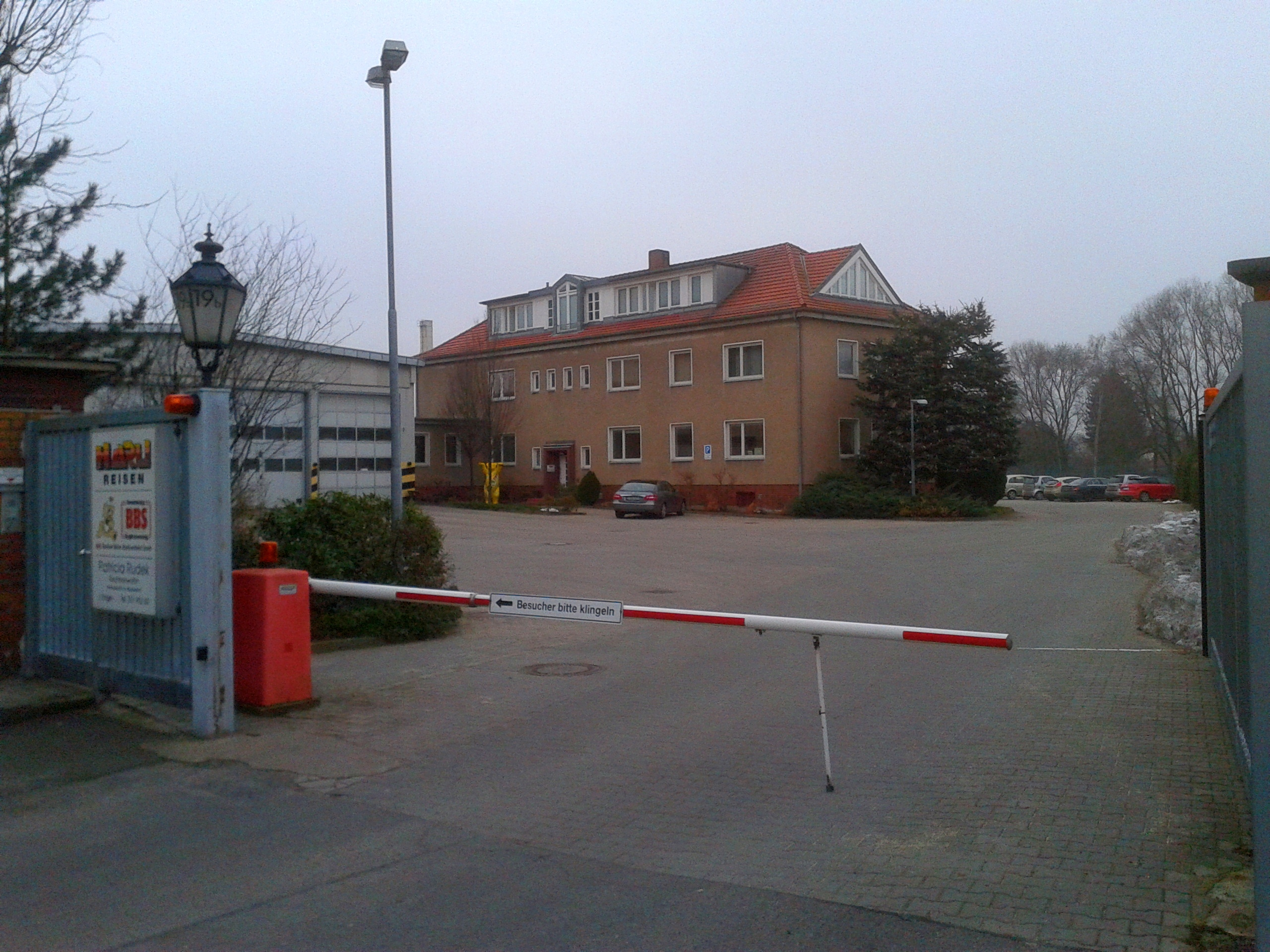 Haru - Depot